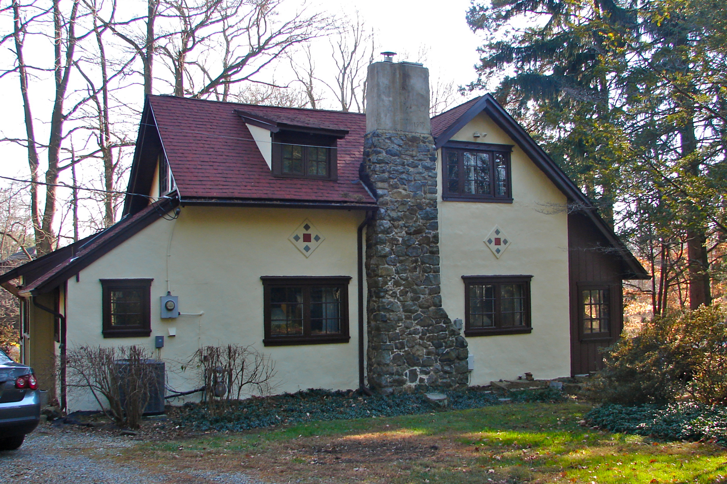 "Green Gate", house in Arden, Delaware part of Ardens Historic District, on the NRHP since May 30, 2003, near Orleans Rd. at Harvey Rd., Arden, Delaware. Or part of Village of Arden, on the NRHP since February 6, 1973, located 6 miles north of Wilmington between Marsh Rd., Naaman's Creek, and Ardentown 39°48′40″N 75°29′14″W Arden, Delaware. (These clearly overlap) House reportedly designed by Will Price, built about 1910